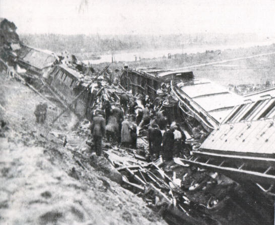 Train slid off the slope near Weesp, Netherlands